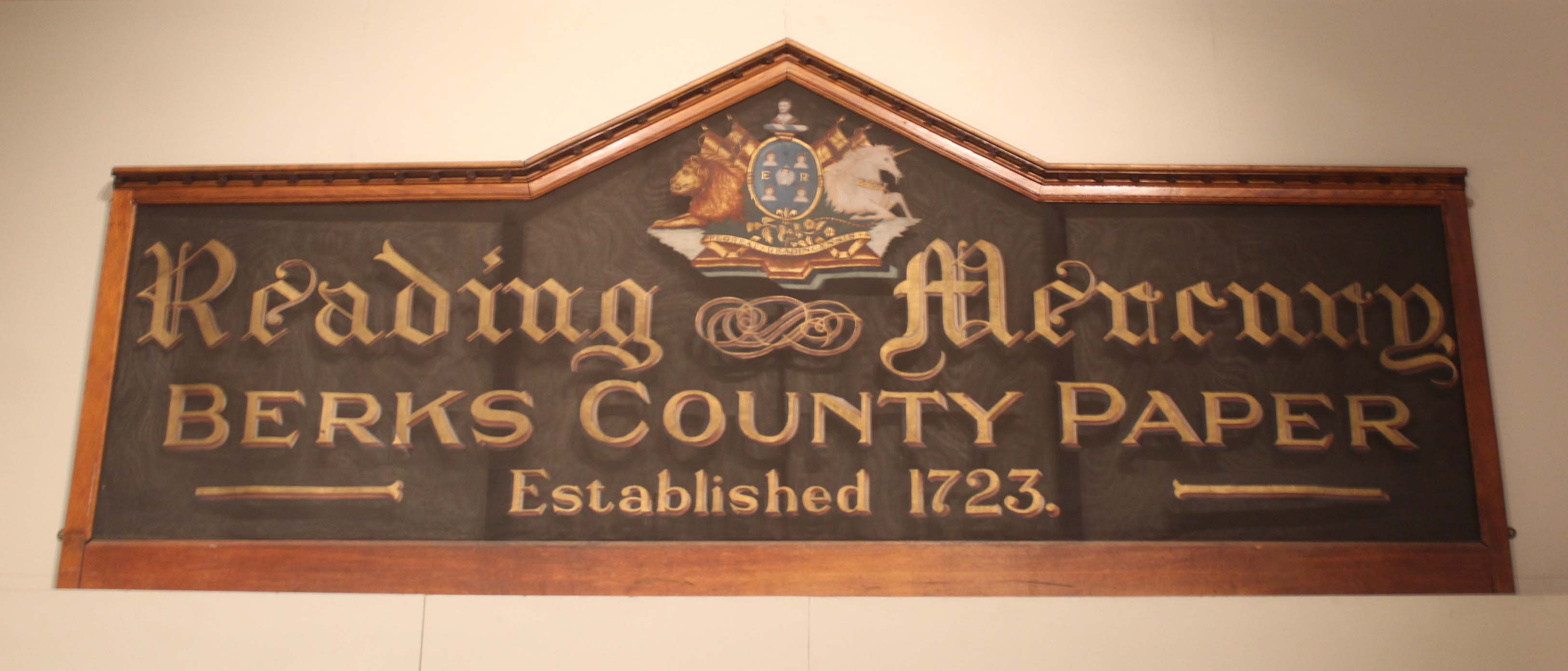 Reading Mercury (English newspaper) sign displayed in Reading Museum